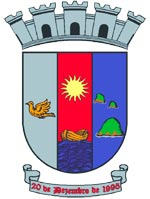 Brasão da cidade de Pontal do Paraná